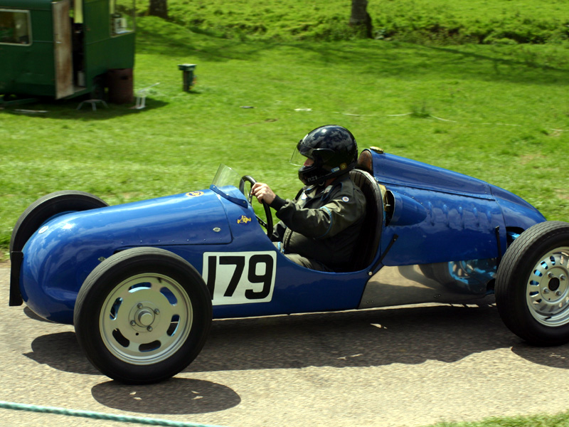 An F3 'JP' racing car, built by Joe Potts of Bellshill, Scotland. Photo taken at Wiscombe Park Hill Climb, 08 May 2005